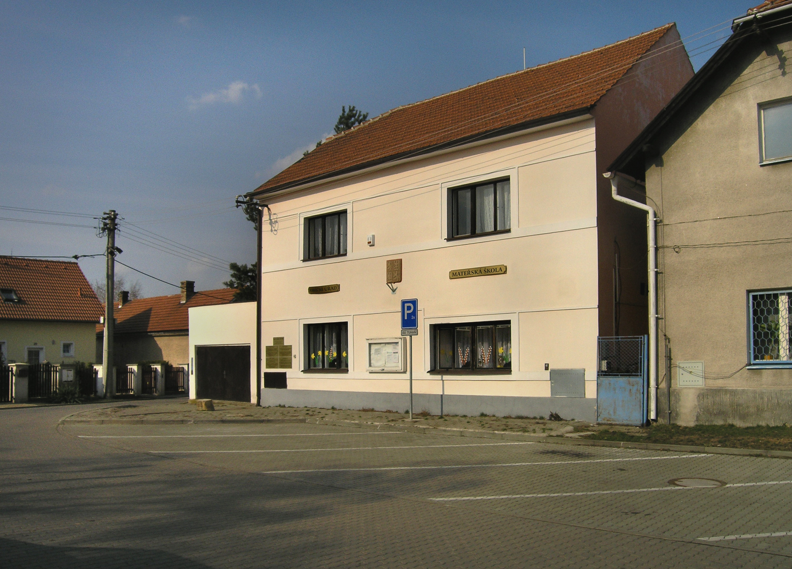 Municipal office in Tuahň village, Czech Republic